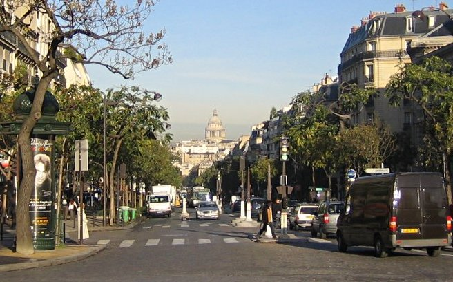 Avenue des Gobelins and the Panthéon, Paris. Photo taken by Thierry Bézecourt, 2005.